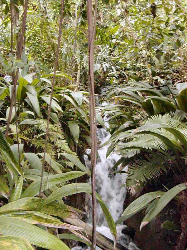 Eden Project: Brook inside the tropical dome